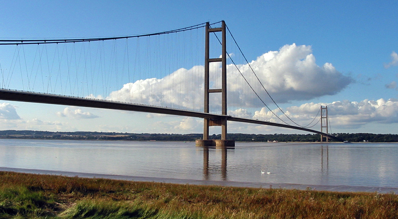 Humber Bridge near Kingston upon Hull, East Riding of Yorkshire, England. Seen from south side.